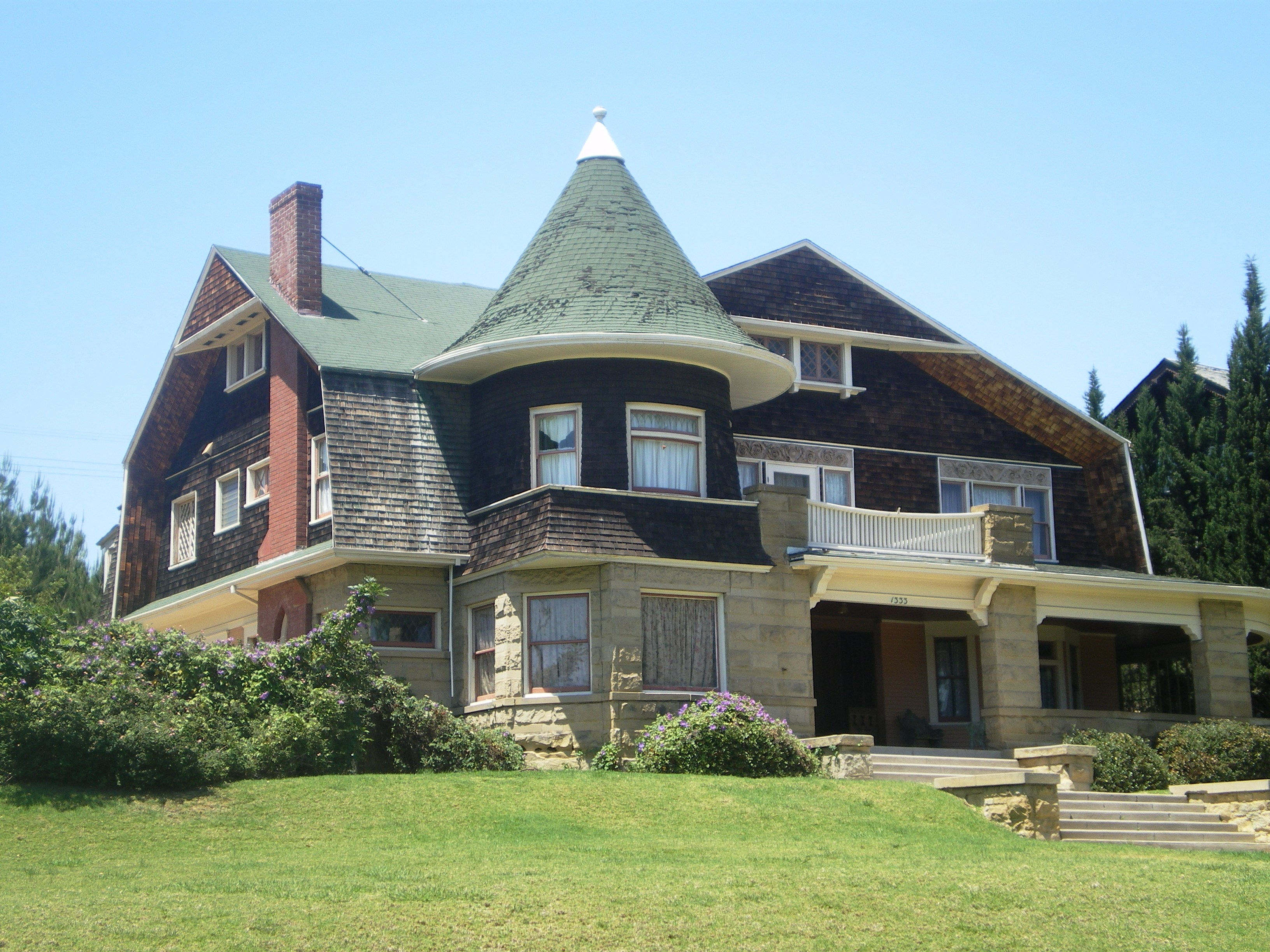 Gilbert House — at 1333 Alvarado Terrace, Pico-Union district, Los Angeles, California. A Los Angeles Historic-Cultural Monument, and a Historic district contributing property to the Alvarado Terrace Historic District.